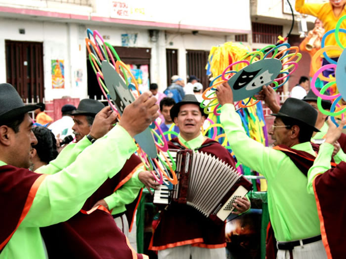 Blacks and Whites Carnival Brass Band (Murga)